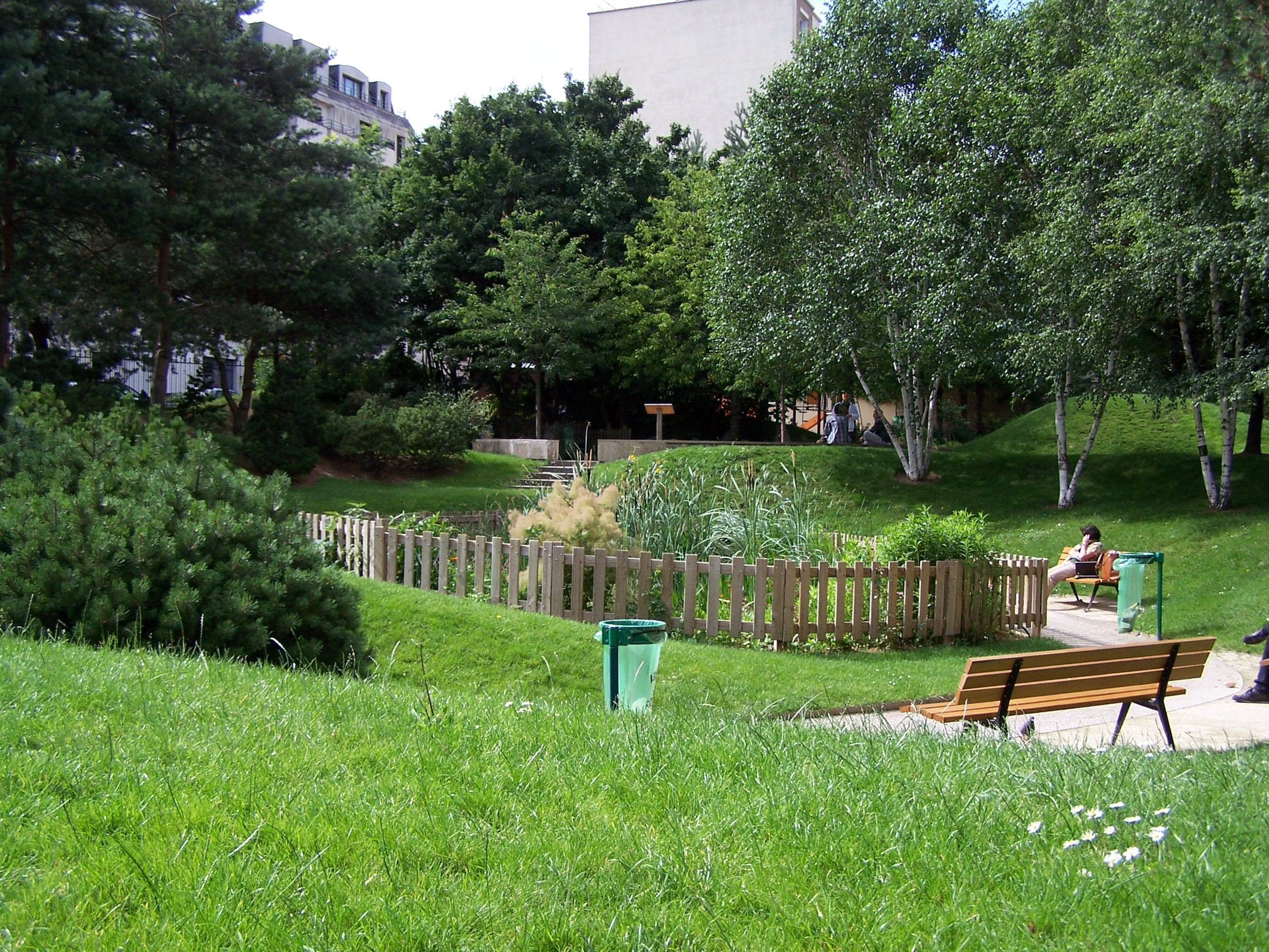 View of the green park « jardin du Dessous-des-Berges » in Paris